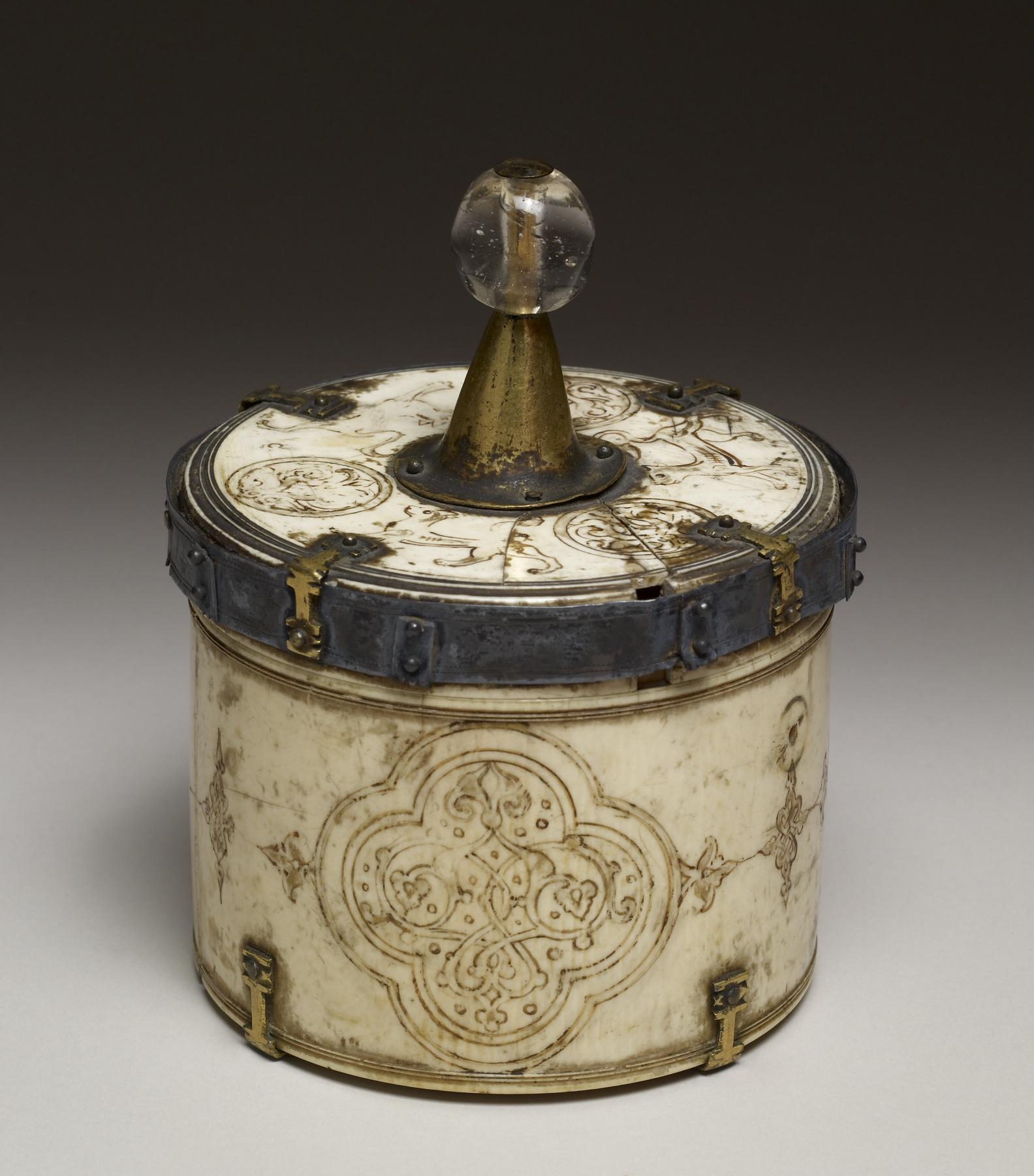 This ivory object, along with Walters 71.310 and Walters 71.308 were created by Muslim craftsmen, probably working in Palermo, Sicily, for the Christian court of the Norman rulers (11th-13th century) and were intended for personal use as containers for perfumes, cosmetics, and jewelry. Many such small boxes and coffers, decorated with typically Islamic motifs such as birds, animals, and geometric designs, eventually ended up in Europe and took on a Christian function. They were often placed on church altars to hold the Host (Communion wafer) for the Mass and sometimes were even transformed into reliquaries to contain the remains of saints. Preserved in church treasuries, these examples of secular Islamic art were admired and copied by European artists making Christian liturgical vessels.